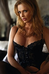 Olga Rodionova - russian model and TV-perfomer